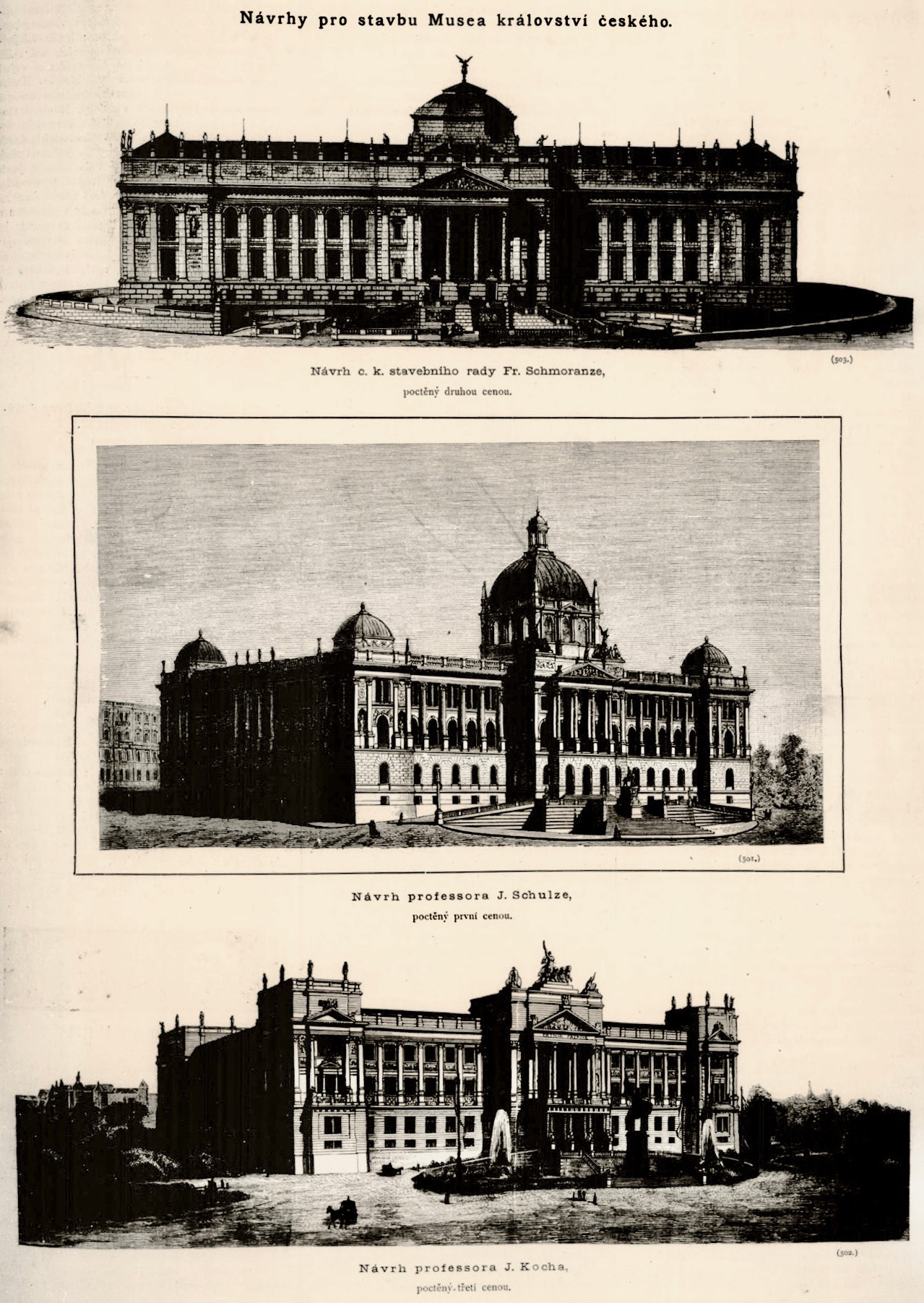 Proposals of the National Museum building, Prague, 1884